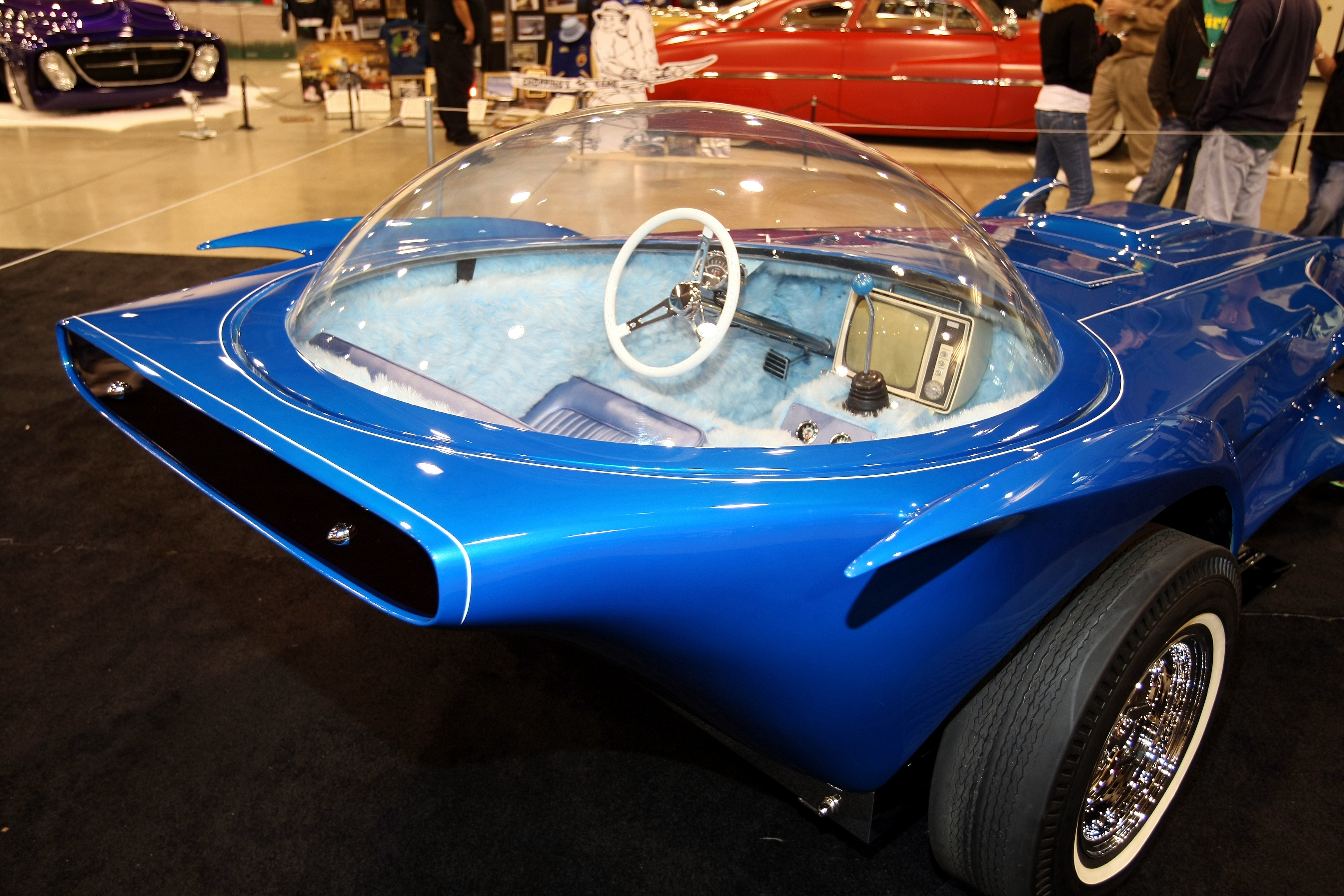 Rear-mounted cockpit of the restored Ed Roth "Orbitron" custom car as displayed in Pomona, CA USA in January 2009.